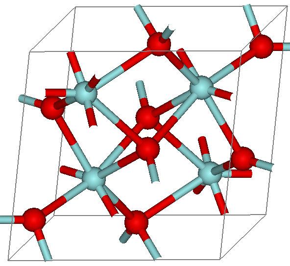 Structure of mineral Baddeleyite (zirconia). Red atoms are oxygens. Error: journal= not stated.